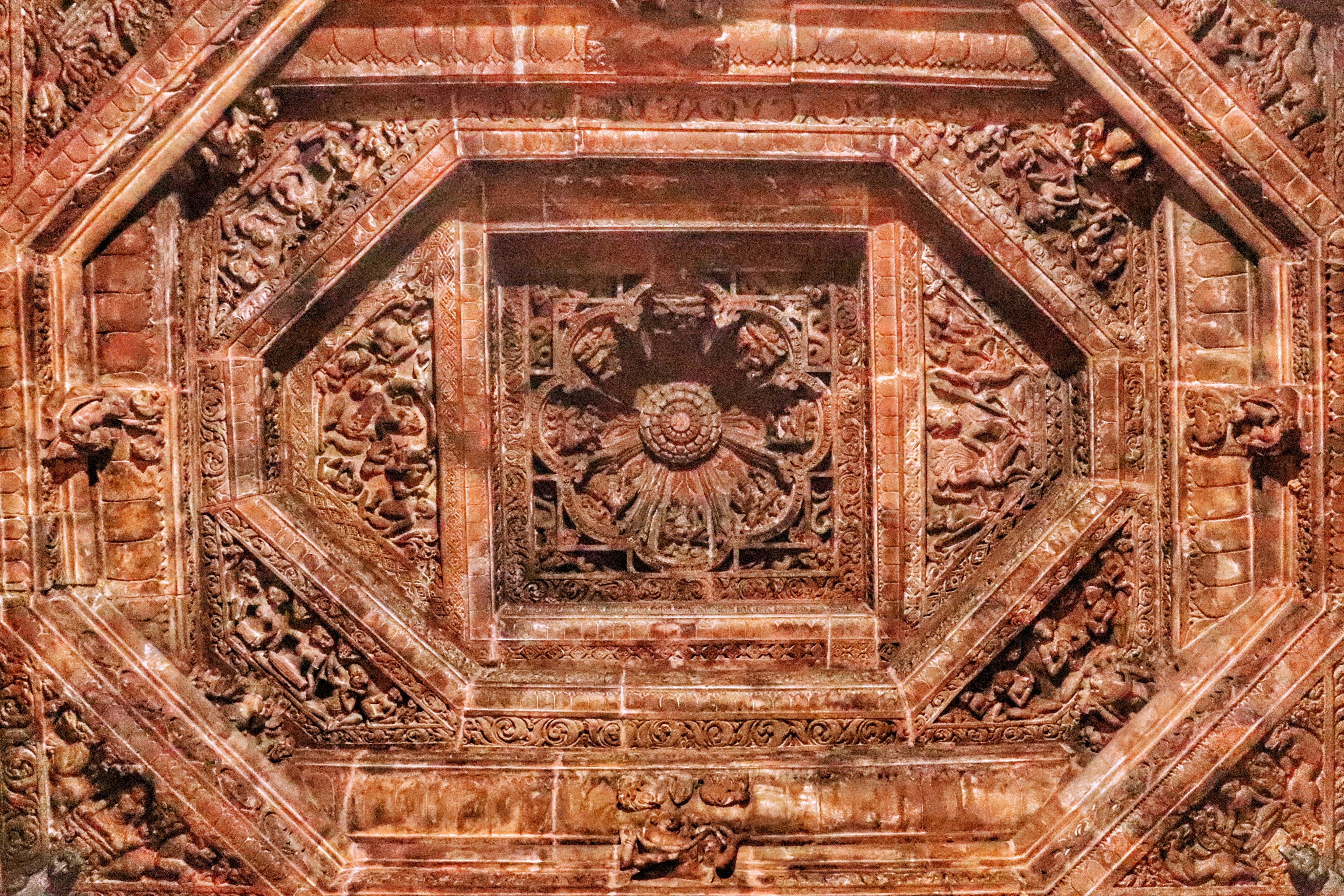 The ceiling of the Mukteshvara Temple, Bhubaneswar, India. The patterns are beautifully carved. The ceiling looks stunning.